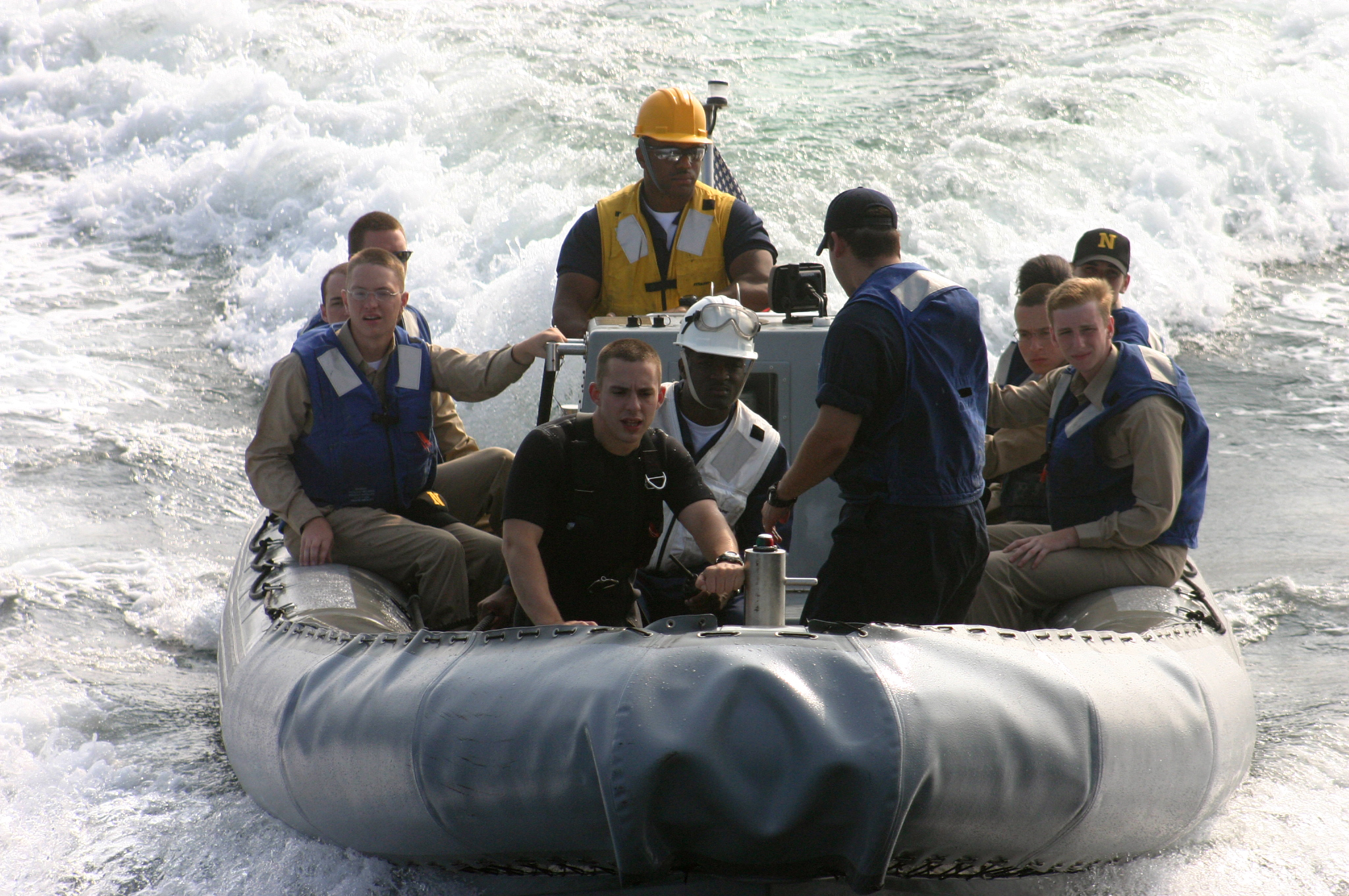 Atlantic Ocean (June 9, 2004) – Midshipmen from the guided missile destroyer USS Laboon (DDG 58) conduct Rigid Hull Inflatable Boat (RHIB) Training during a Coordinated Training Exercise for Midshipmen (CORTRAMID) off the coast of Virginia. Laboon and five other surface force ships participated in the training exercise. U.S. Navy photo by Yeoman 2nd Class Anthony J. Larkin (RELEASED)